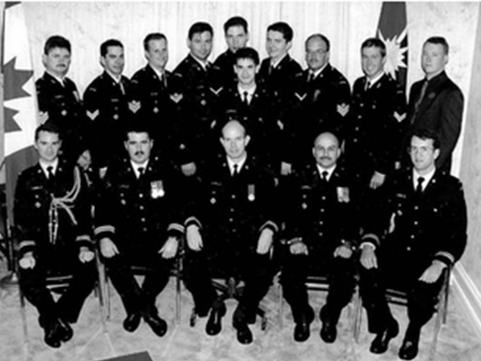 3 Intelligence Company Standup, November 4, 1995.